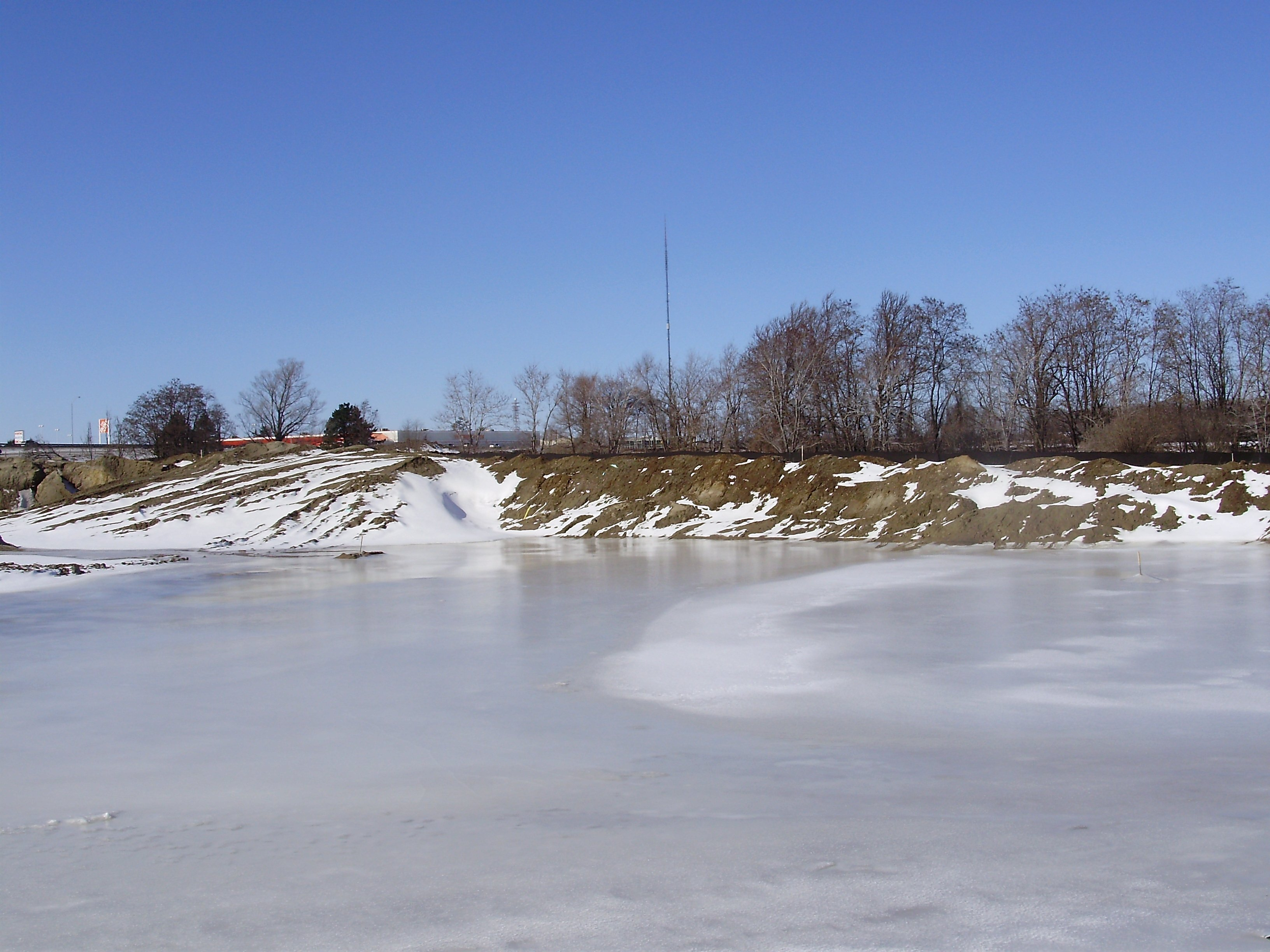 Park Place in Barrie, Ontario, Canada in February 2009, prior to the start of major construction in what is planned to be a business/shopping development. The CKVR Television Tower is visible in the distance.